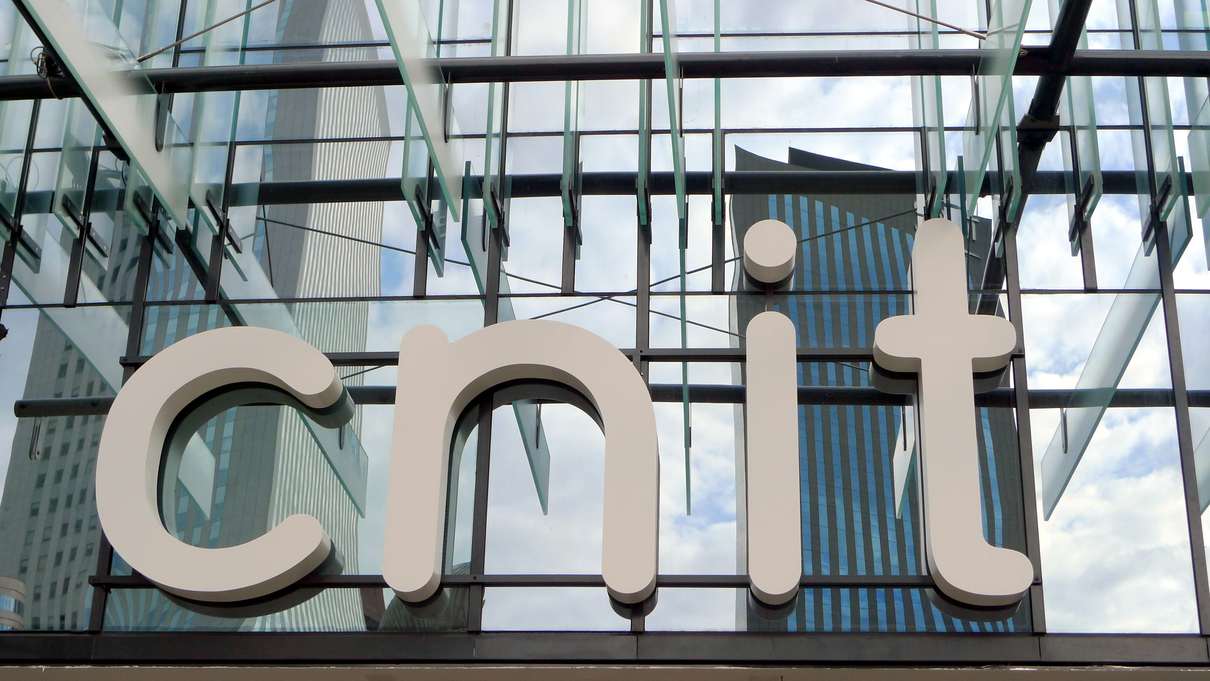 La Défense, Hauts-de-Seine, France.